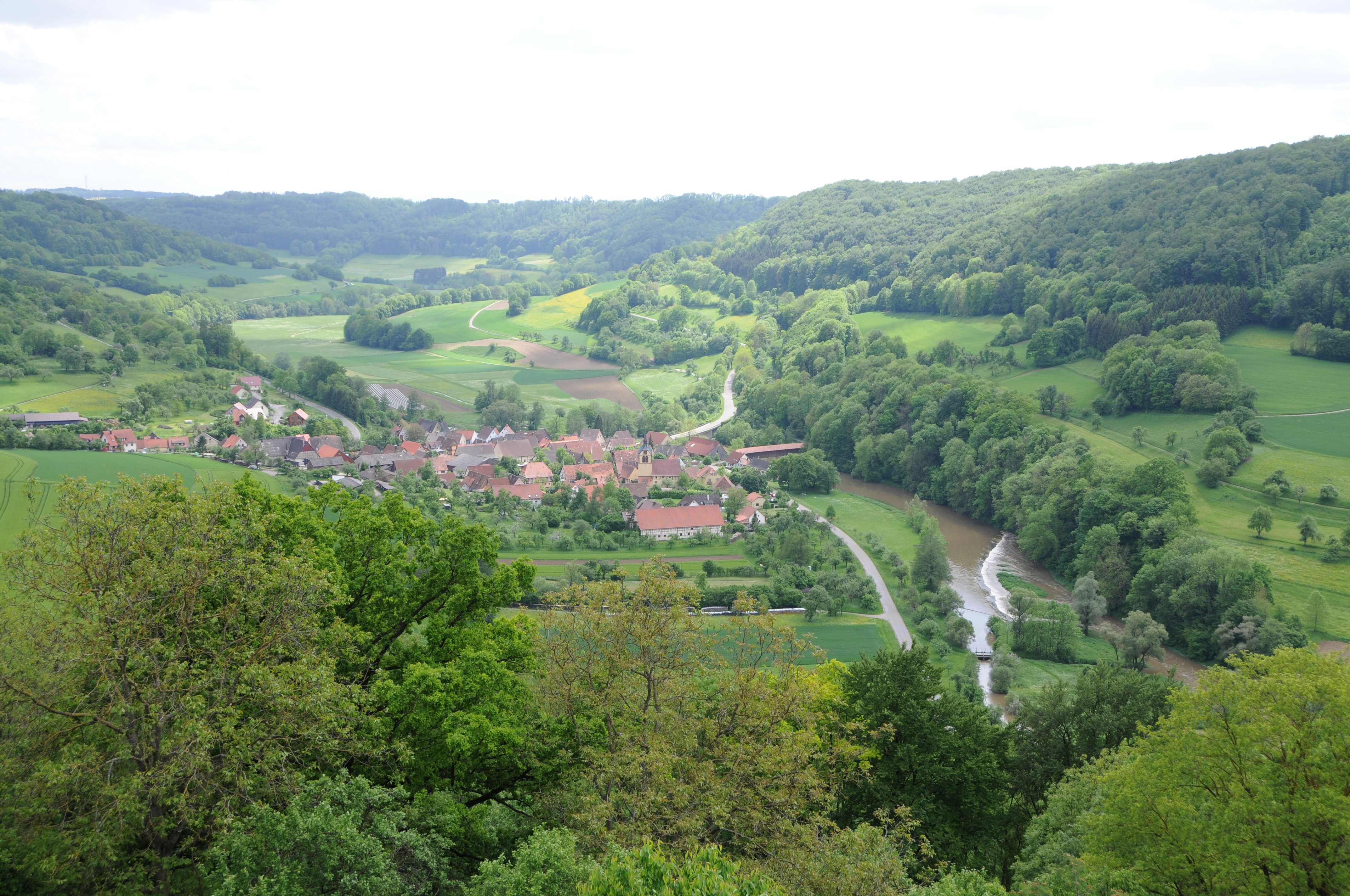 Bächlingen (Jagst), view from castle Langenburg